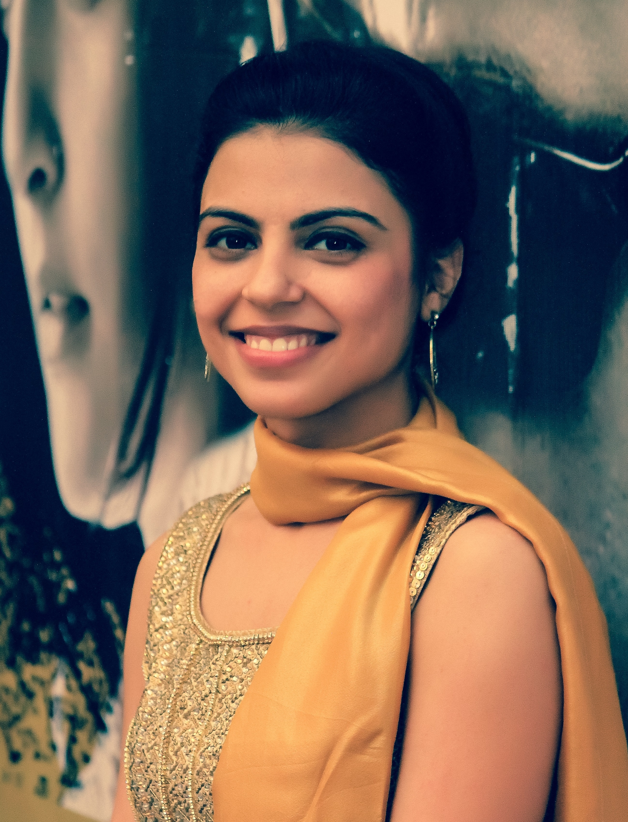 Jaspreet Kaur Official Image